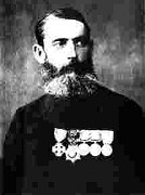 Romolo Gessi (1829-1881), Italian traveller and official in Egyptian Sudan